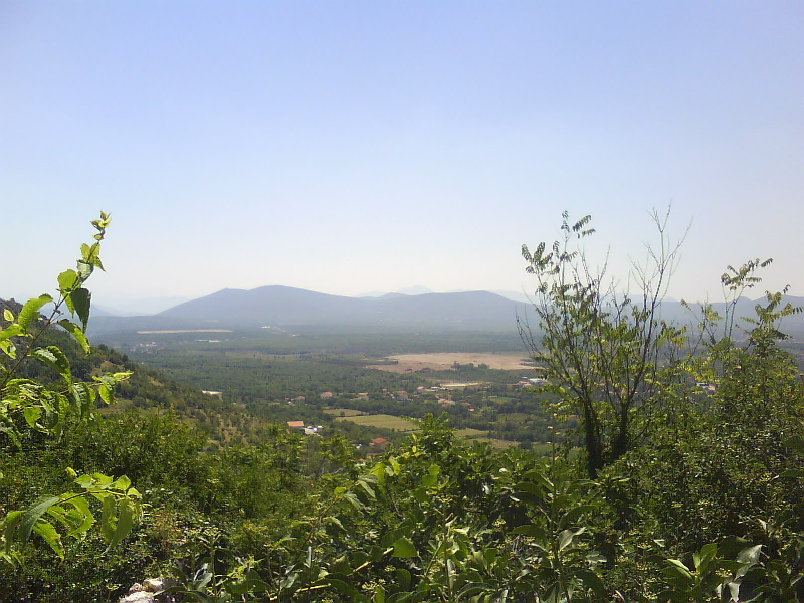 cultivated Karst field (polje) and town Ljubuški